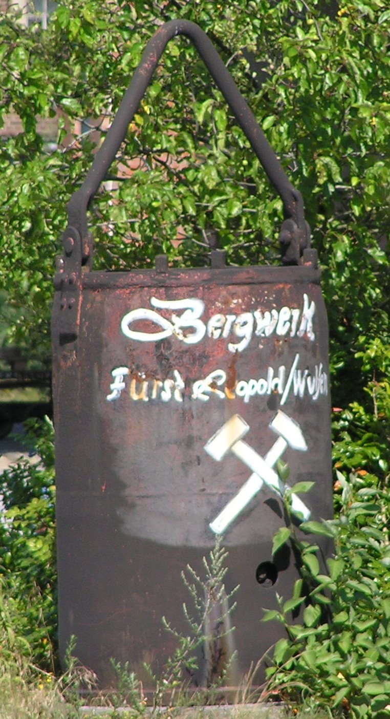 Kibble of the closed coal mine “Fürst Leopold” near Dorsten, North-Rhine-Westfalia, Germany.